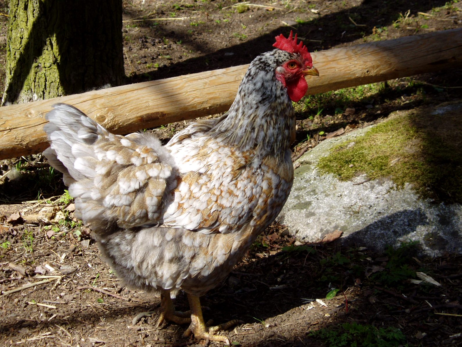 Swedish chicken breed - Skånsk blommehöna, femal, photo taken at Skansen Stockholm